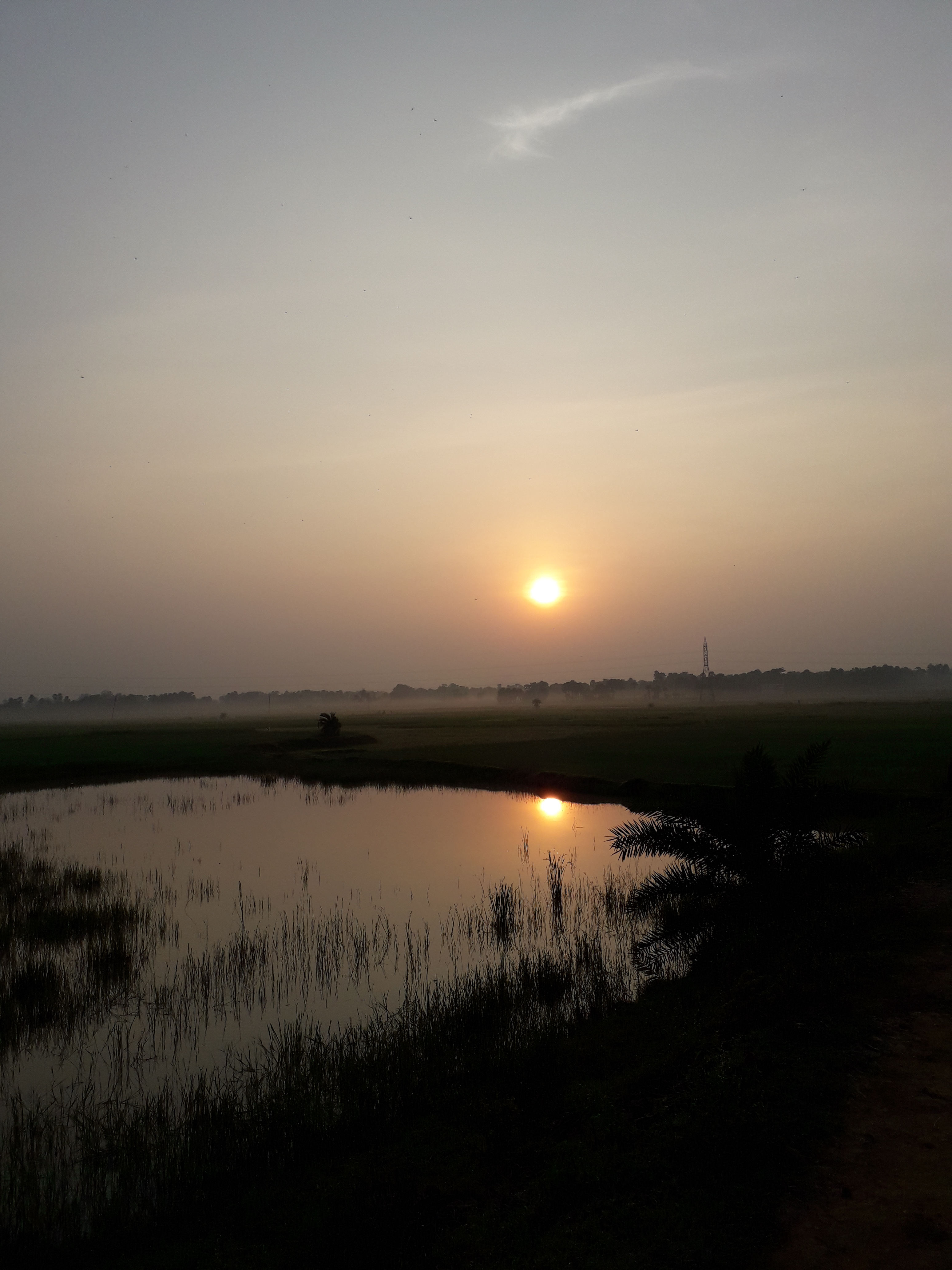 Godda_paddyfield